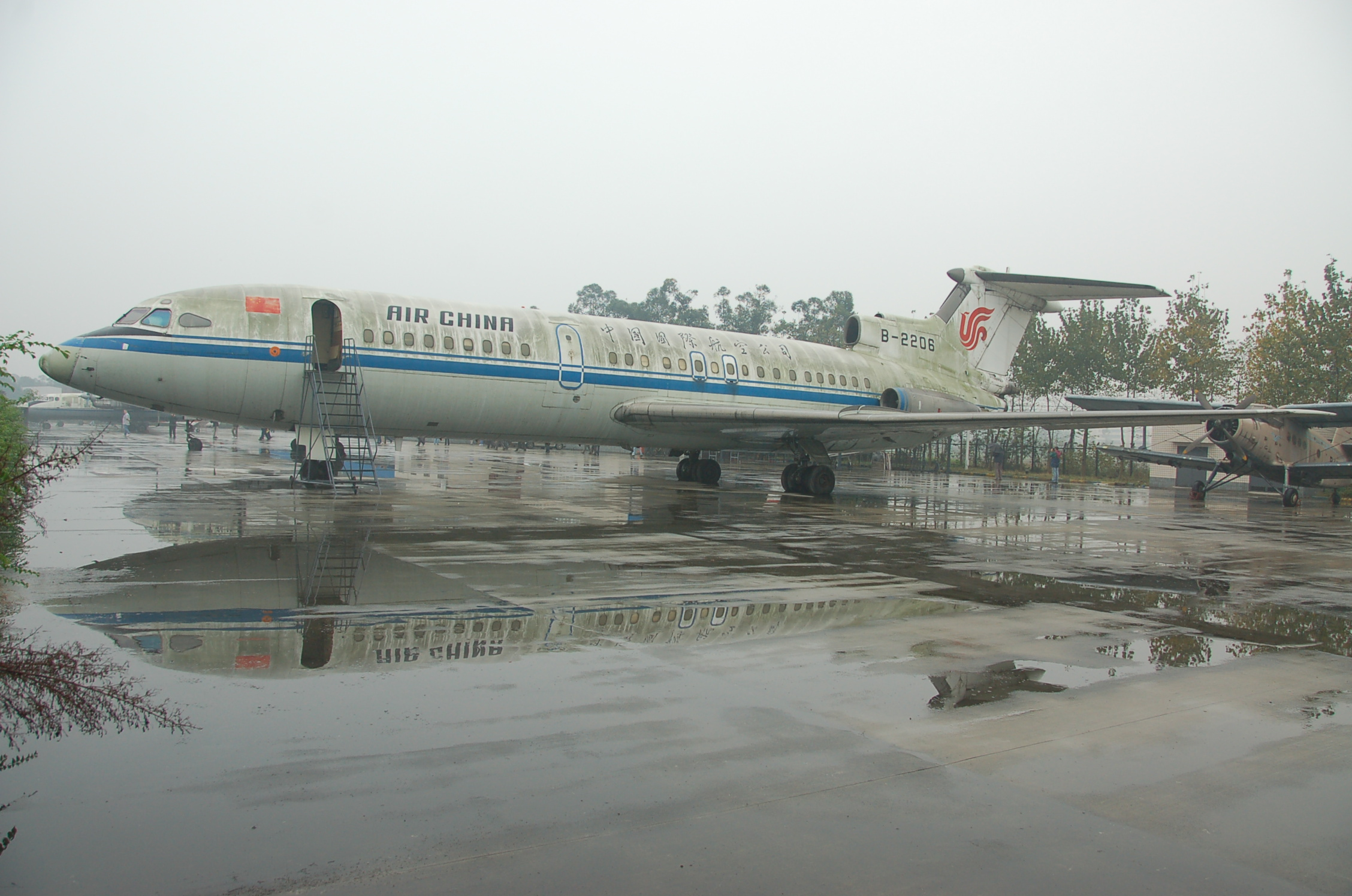 Hawker-Siddeley Trident 2E of the Civil Aviation Flight University of China at Guanghan, Sichuan,China 04/11/08.